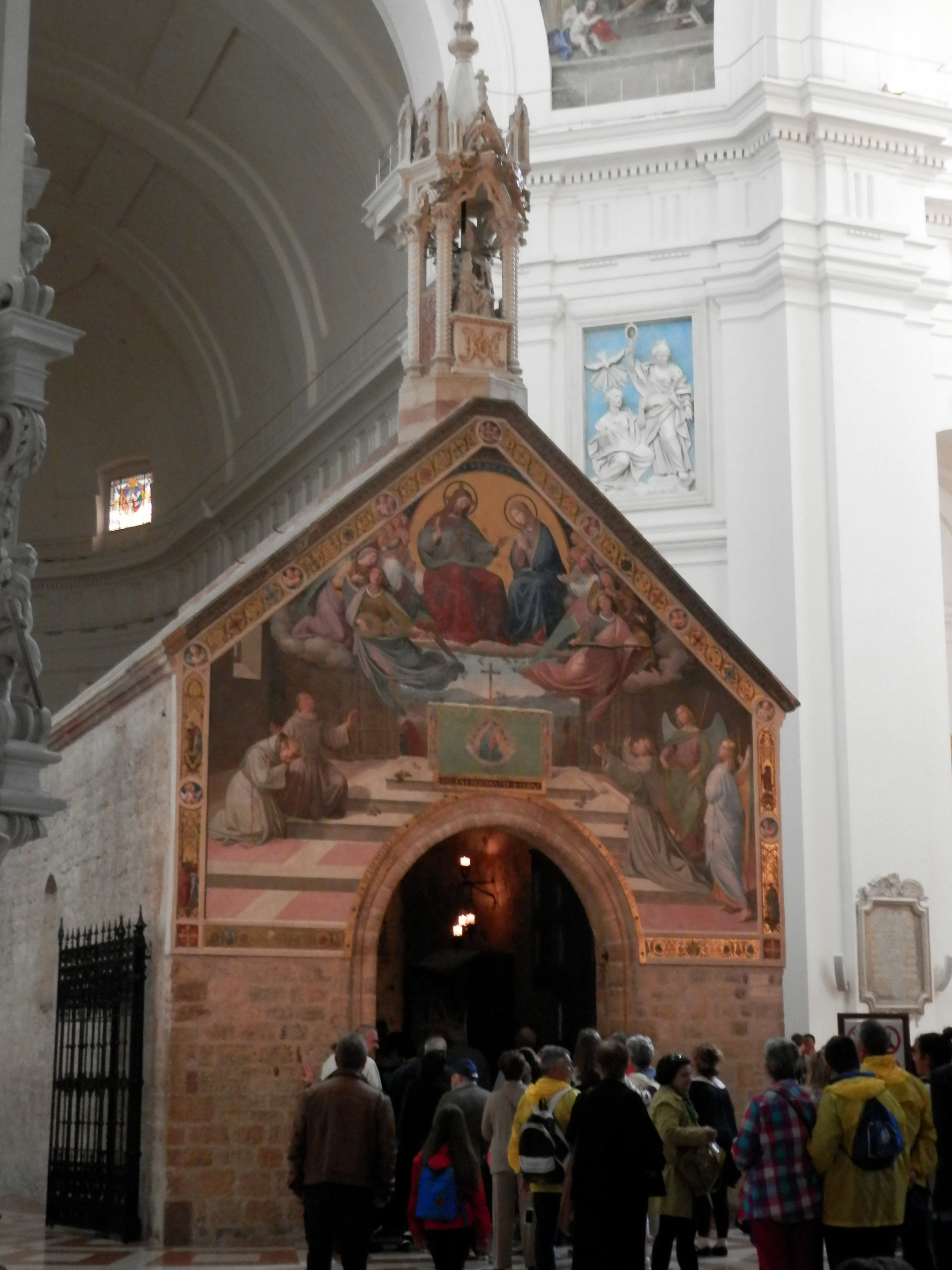 Porziuncola inside the Basilica of Saint Mary of the Angels (Santa Maria degli Angeli), Italy